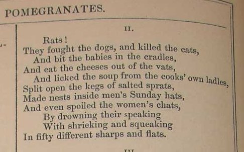 Fragment of The Pied Piper of Hamelin, by Robert Browning. Original book, 1842, Dramatic Lyrics.